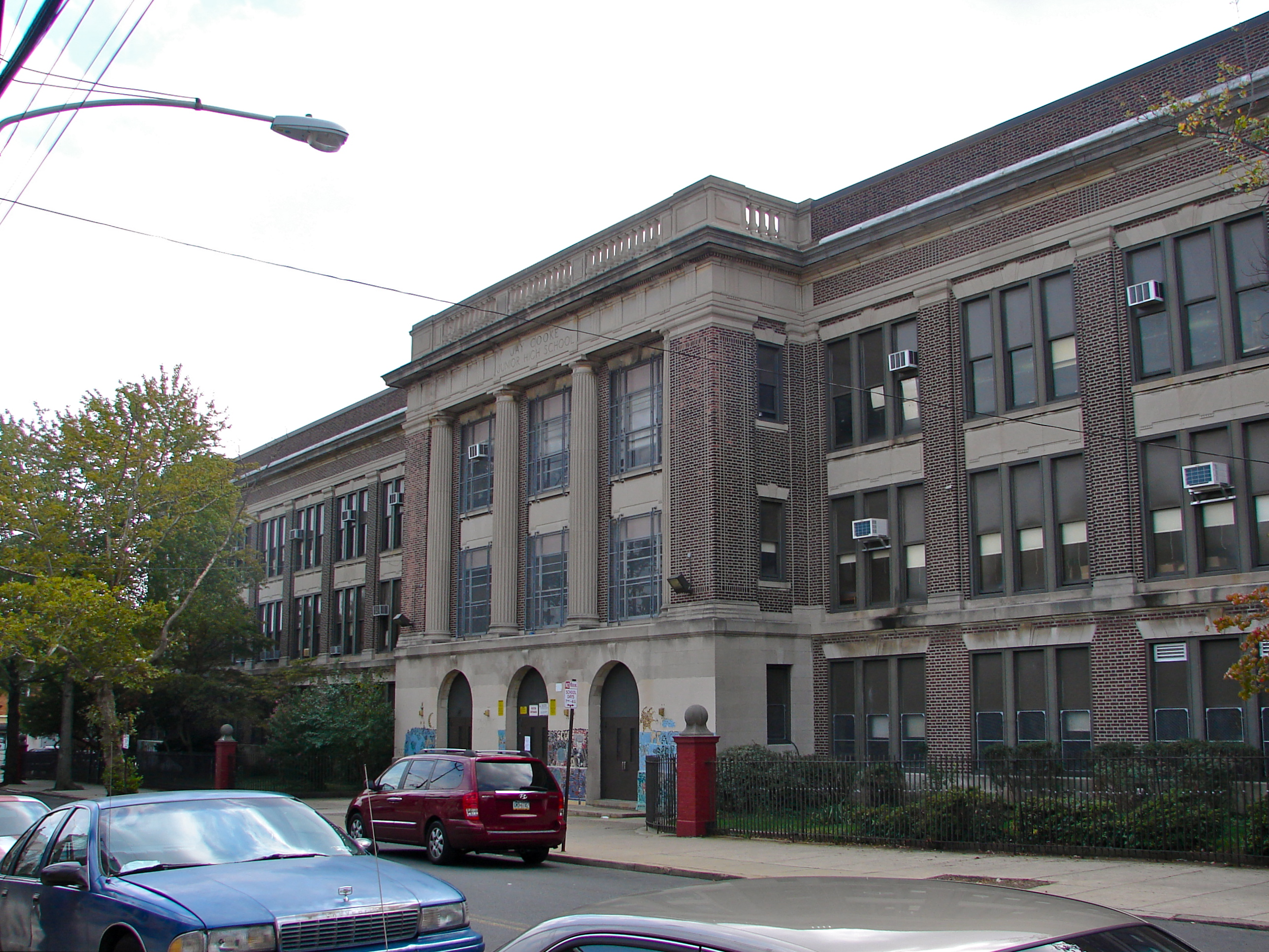 Jay Cooke Junior High School in Philadelphia on the NRHP since November 18, 1988. At 4735 Old York Road in the Logan neighborhood of North Philly. Named after financier Jay Cooke